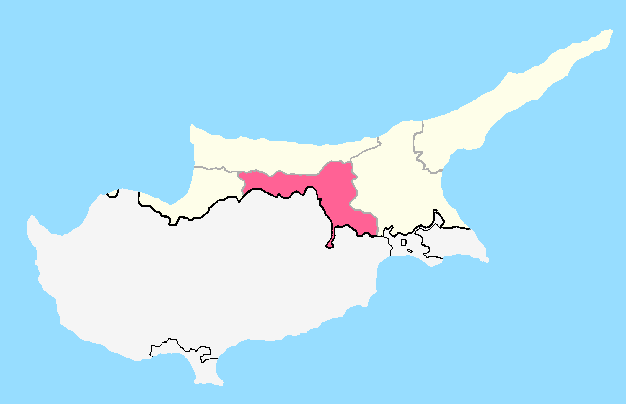 Nicosia District Map